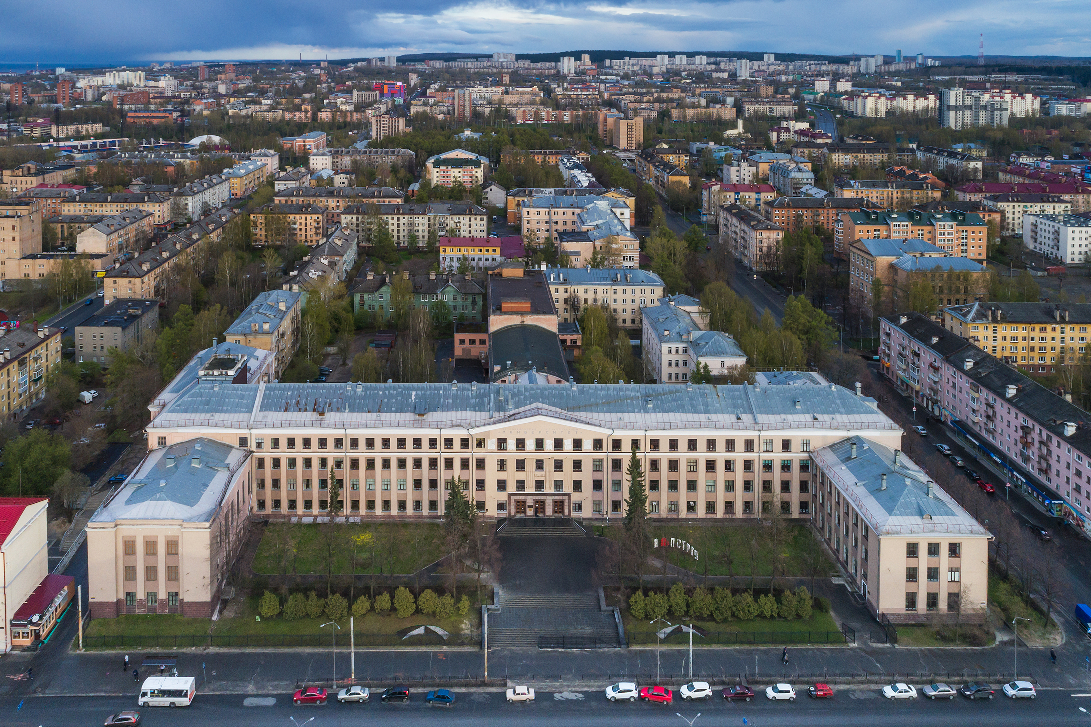 Main building of the University (aerial photo) in Petrozavodsk, Republic of Karelia (Russia).